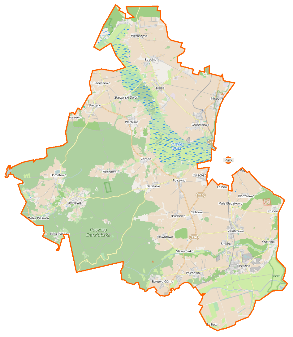 Map of Gmina Puck, Poland This map of Puck (gmina wiejska) was created from OpenStreetMap project data, collected by the community. This map may be incomplete, and may contain errors. Don't rely solely on it for navigation.